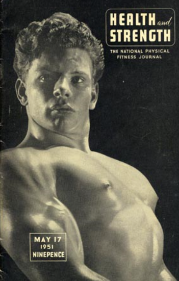 Henry Downs, American bodybuilder.